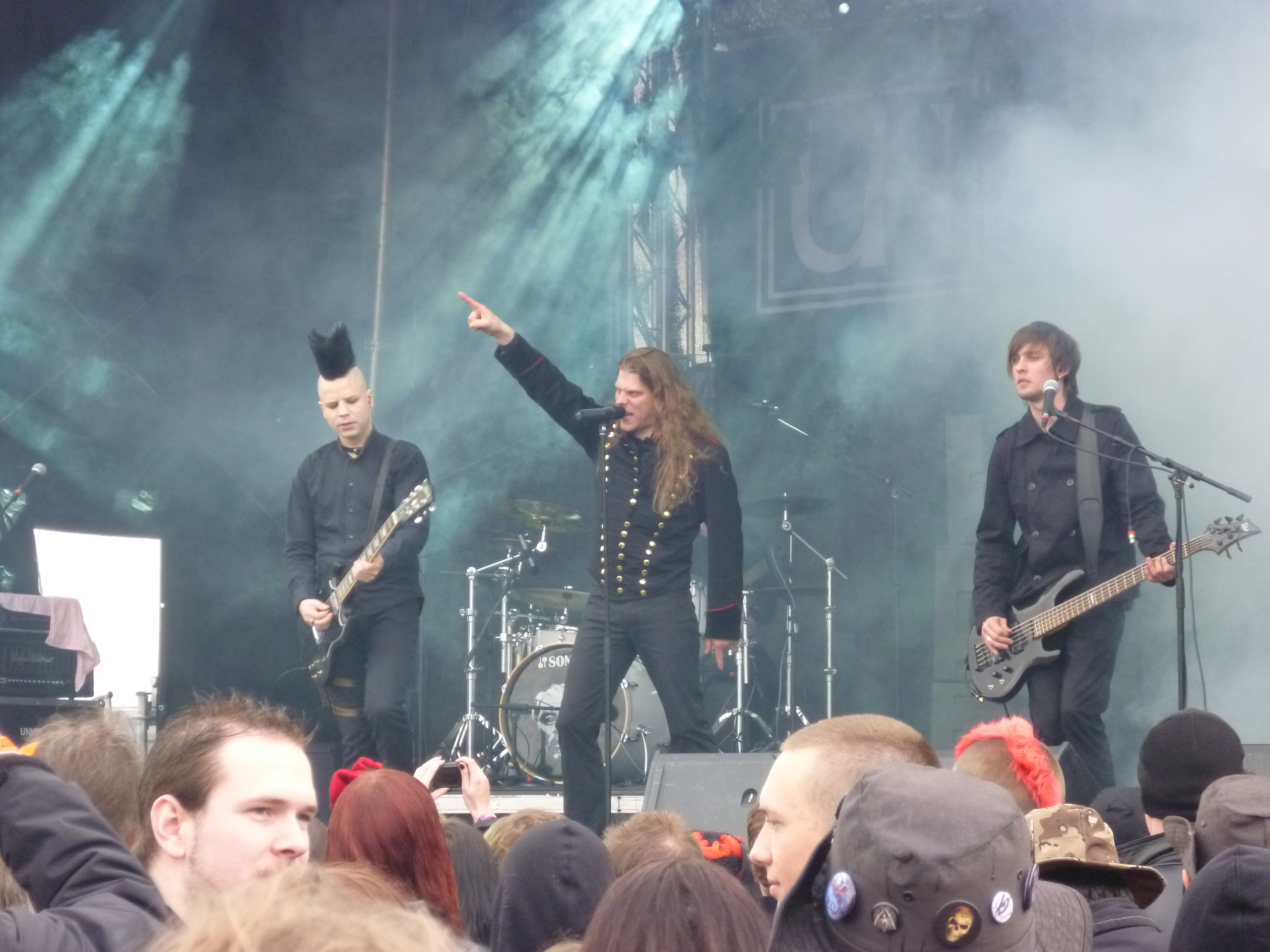 Diary of Dreams playing at the Hexentanz-Festival 2010